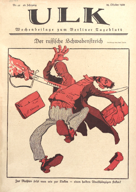 Cover of the magazine ULK, 29 October 1920, featuring a cartoon by Paul Halke showing a sabre labelled Msocw cutting the USPD party into the Däumig and Dittmannfactions